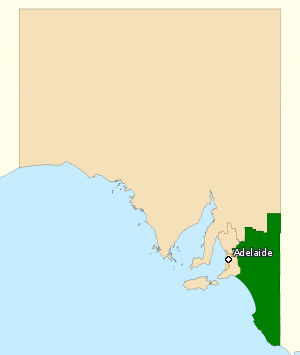 This image incorporates data that is: © Commonwealth of Australia (Australian Electoral Commission) 2009 Division of Barker 2010